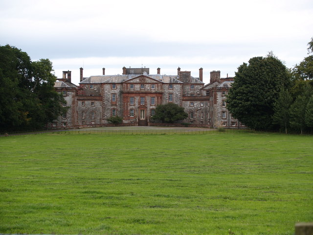 Galloway House Near Garlieston